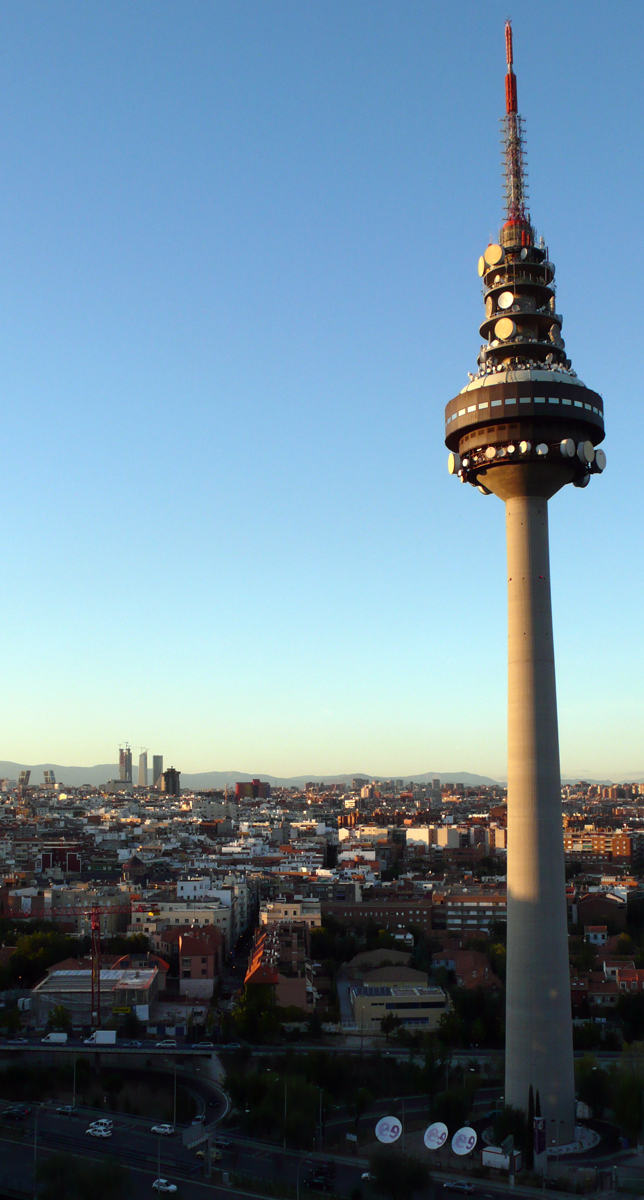 Torrespaña TV Tower Madrid (Spain)